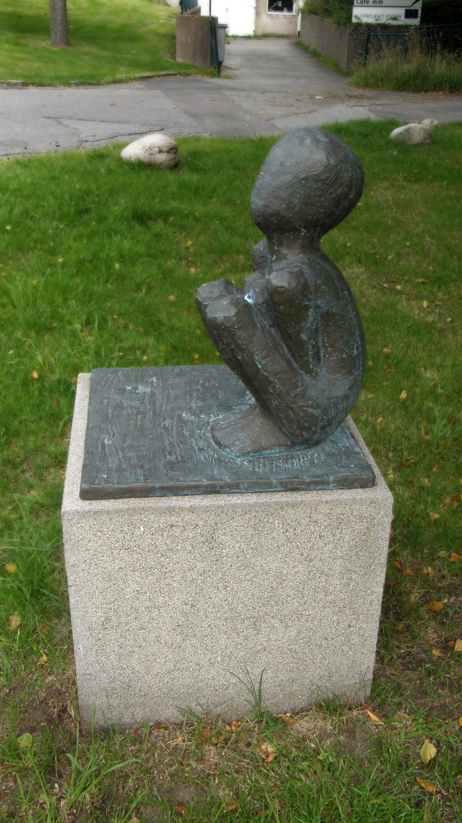 Alone. Bronze sculpture by Margareta Ryndel 1987. Härlanda, Gothenburg, Sweden.